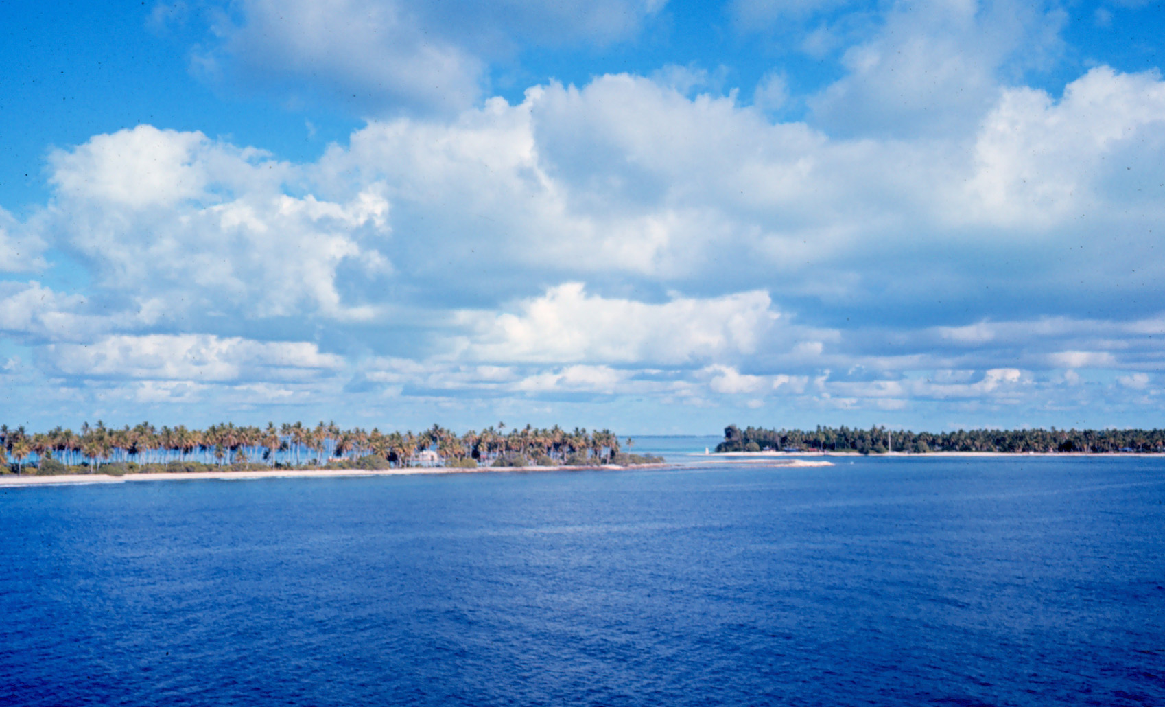 The lagoon entrance (English Harbour) at Fanning Island (Tabuaeran), Line Islands, Pacific Ocean